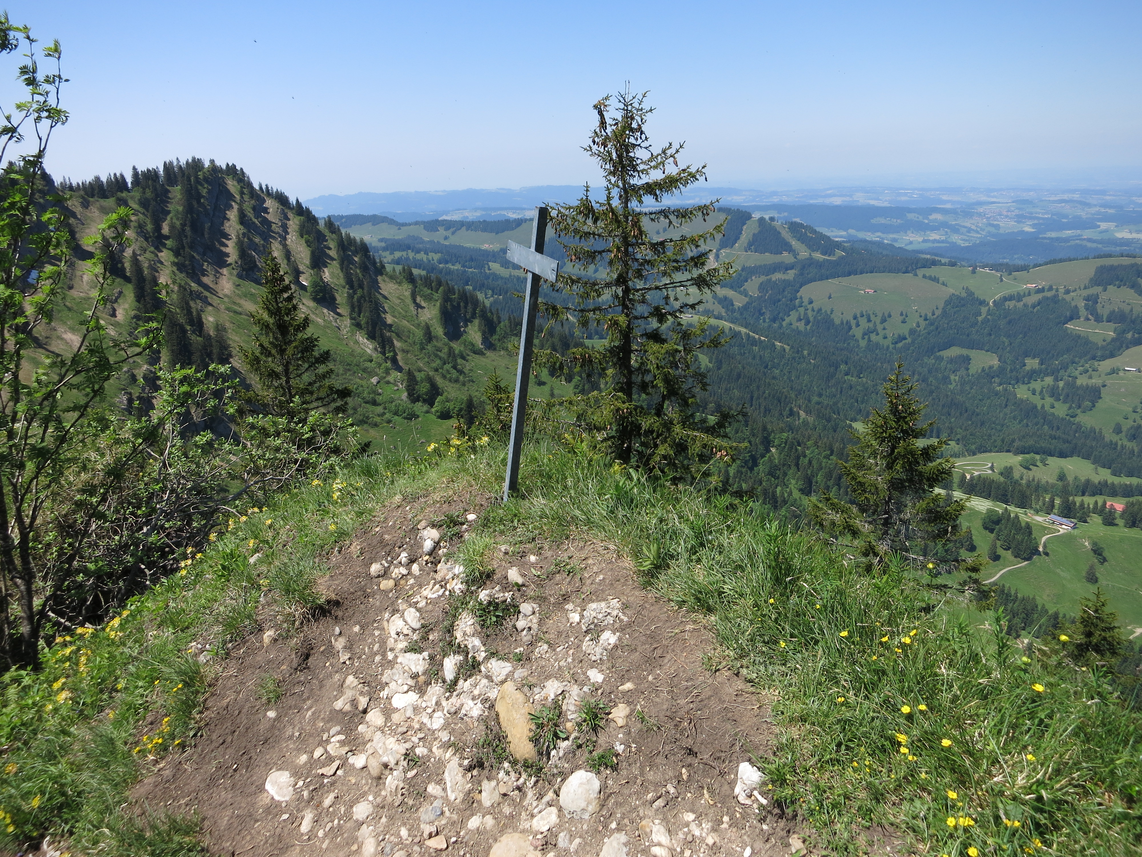 Mountain Hohenfluhalpkopf, Allgäu